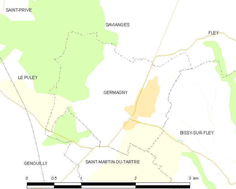 Map of French municipality